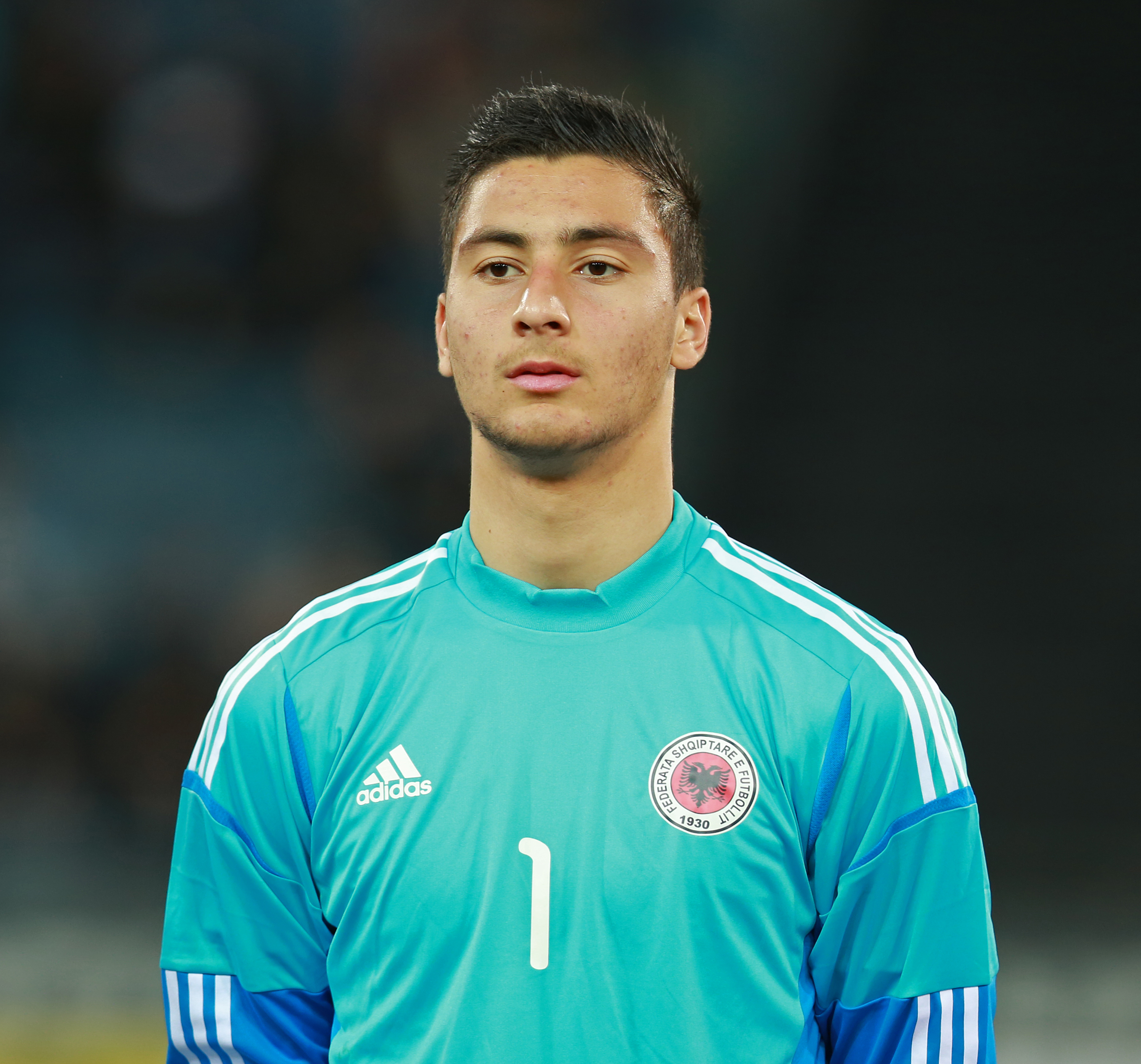 Thomas Strakosha at national under-21 football game Albania vs. Austria in Graz, UPC Arena, 5. March 2014